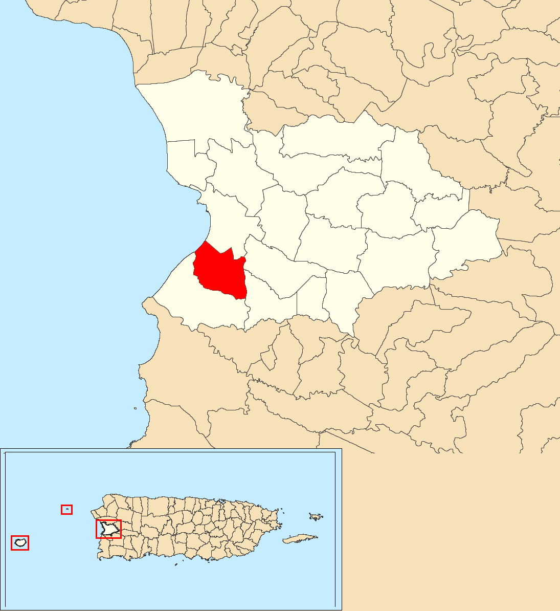 Sábalos, Mayagüez, Puerto Rico locator map